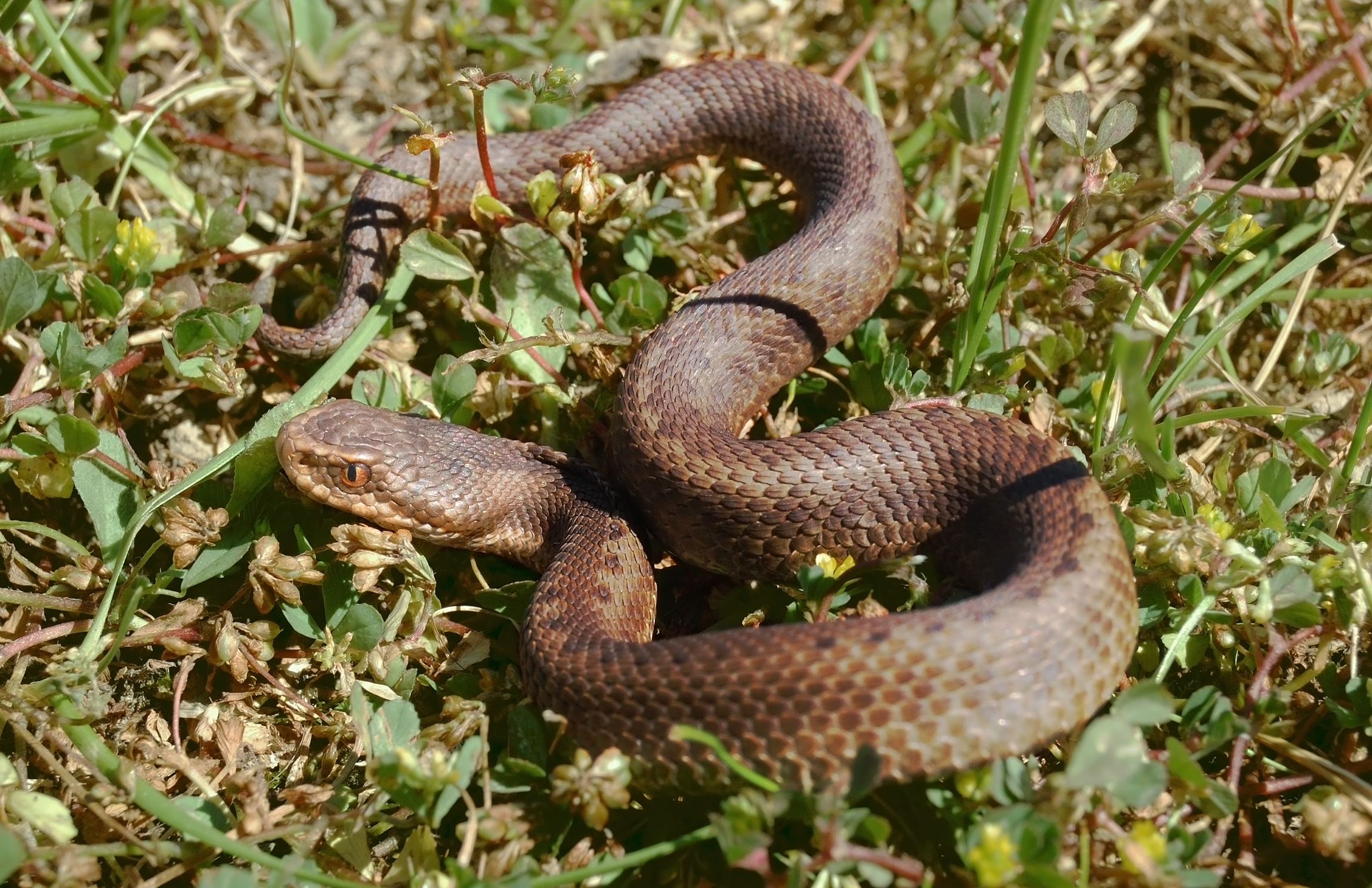 Vipera seoanei viper, a species living in the northern part of the Iberian peninsula and southwestern corner of France. This specimen measures about 25 cm long.